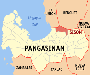 Map of Pangasinan showing the location of Sison